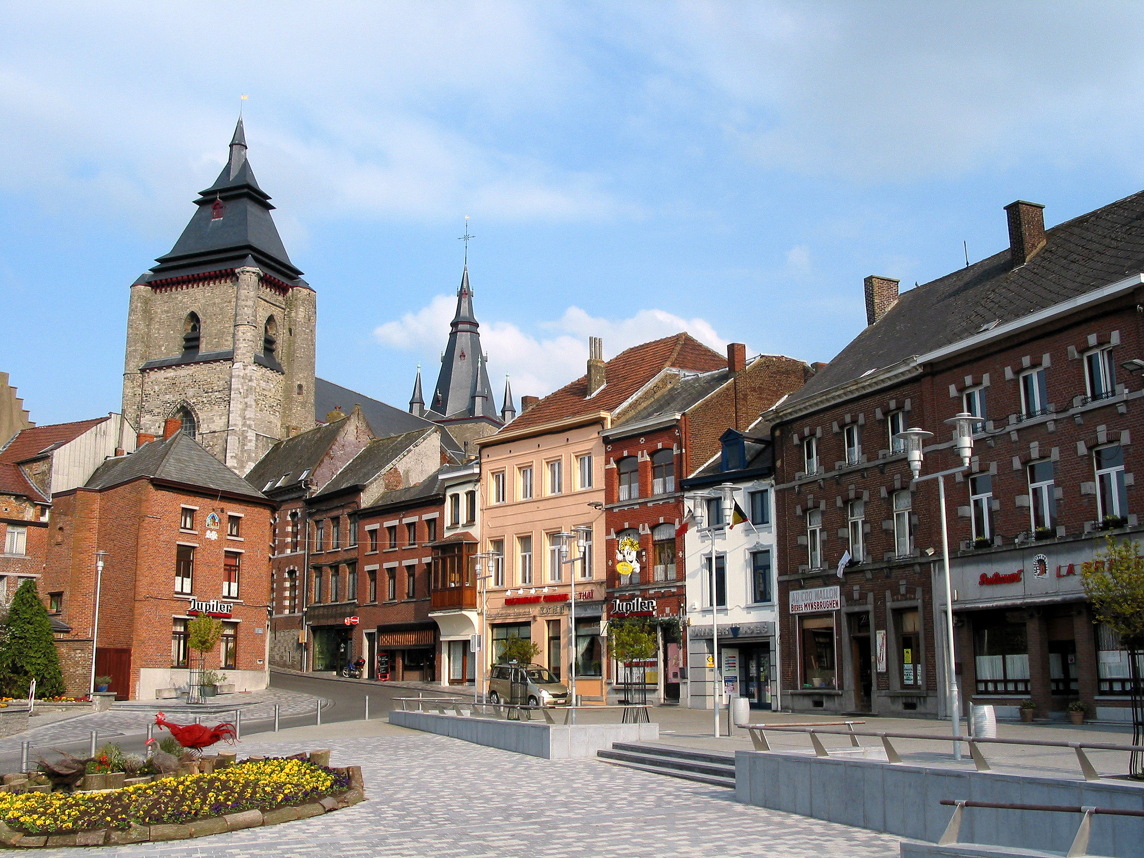 Soignies (Belgium), the Saint-Vincent collegiate church (Xth century) and the square on the "Place Verte". Walon: Sougnîye (Bèljike), li colèjiale Sint-Vincent (Xin.me sièke) èt l’flori bokèt dol Vète plèce.